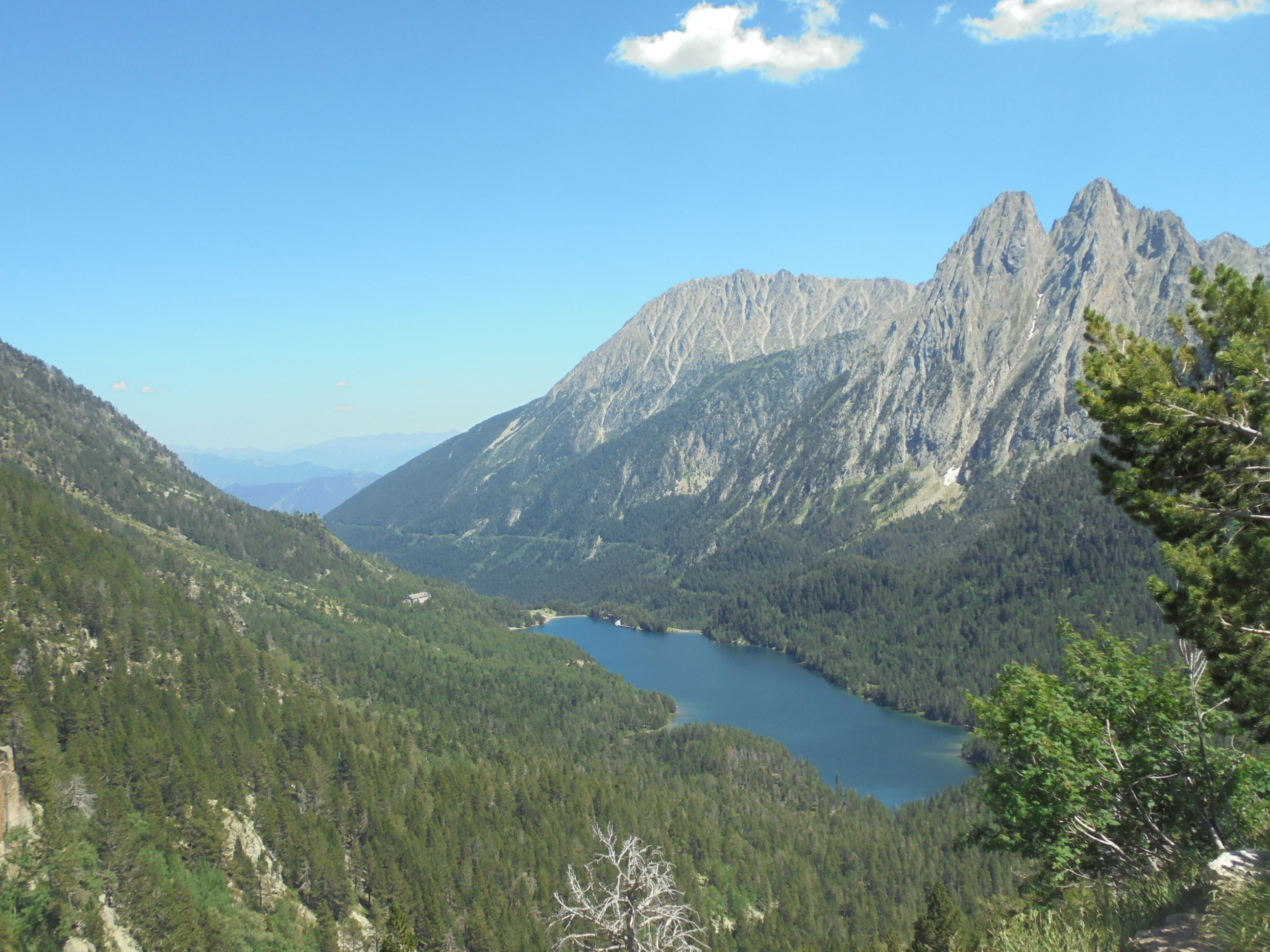 Picture of Sant Maurici Lake from the viewpoint of the lake, 2,200 meters above sea level on 10 July 2015.